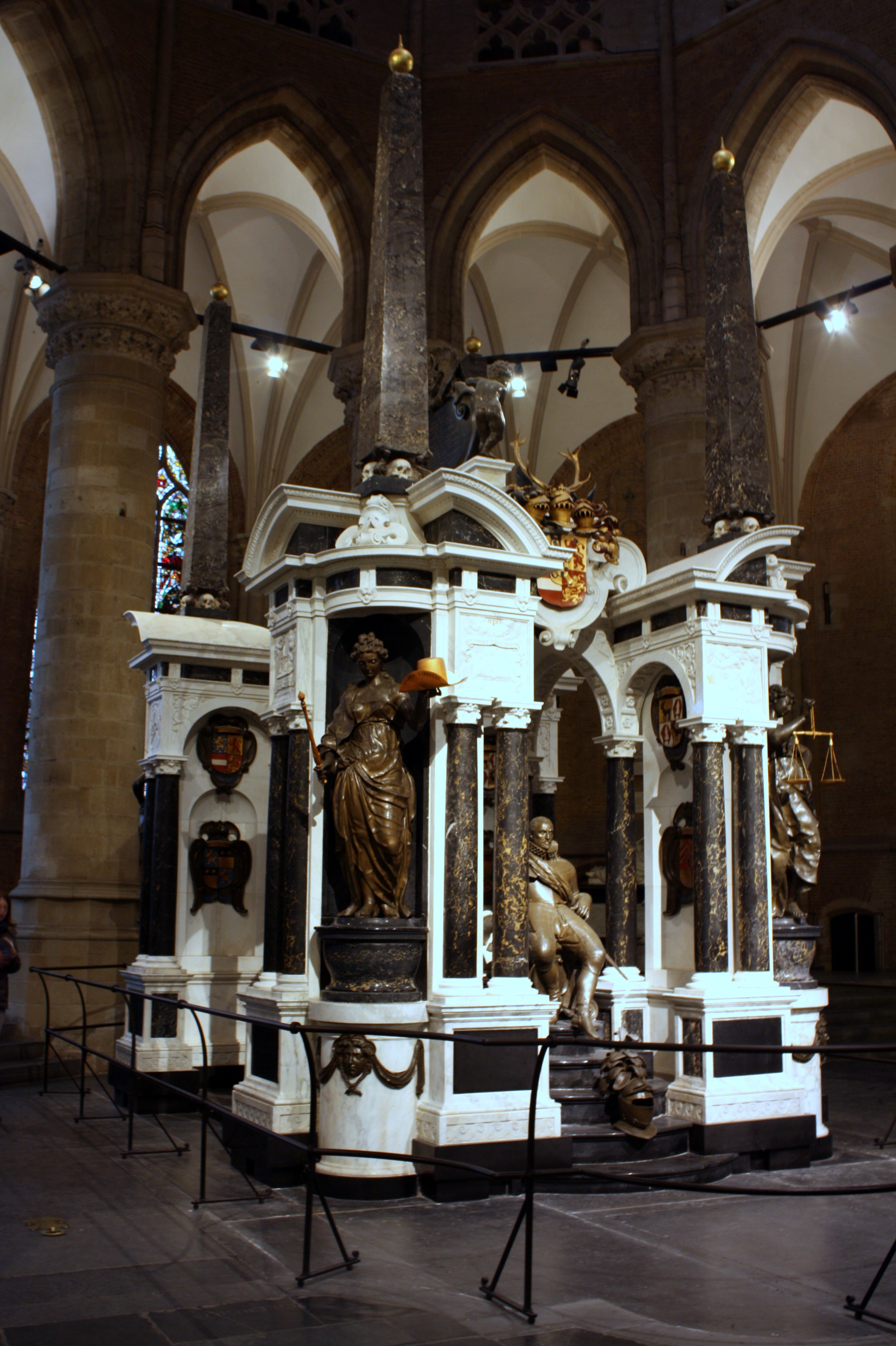 Delft, Oude Kerk (The Old Church)